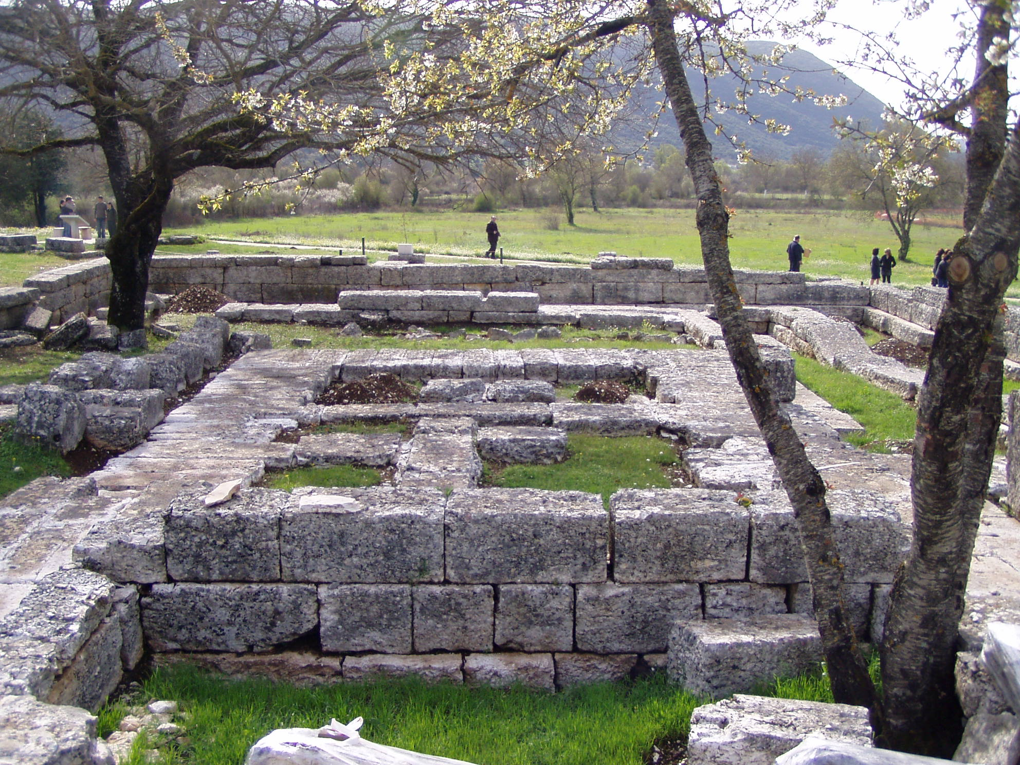 This is the Temple of Zeus in Dodona.